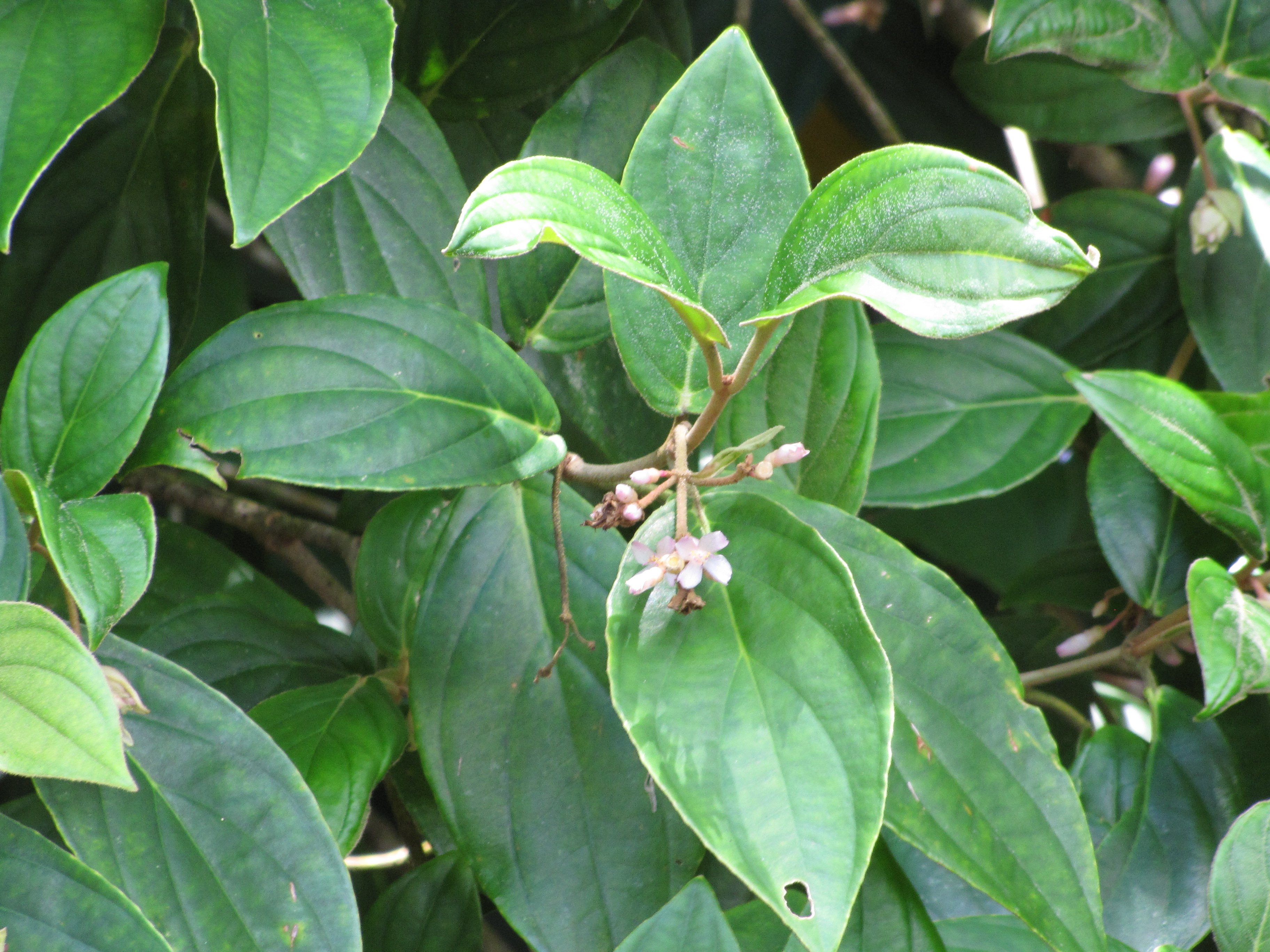 Medinilla venosa (Medinilla) Flowers and leaves at Hana Hwy, Maui, Hawaii. July 02, 2009 #090702-2135 Image Use Policy